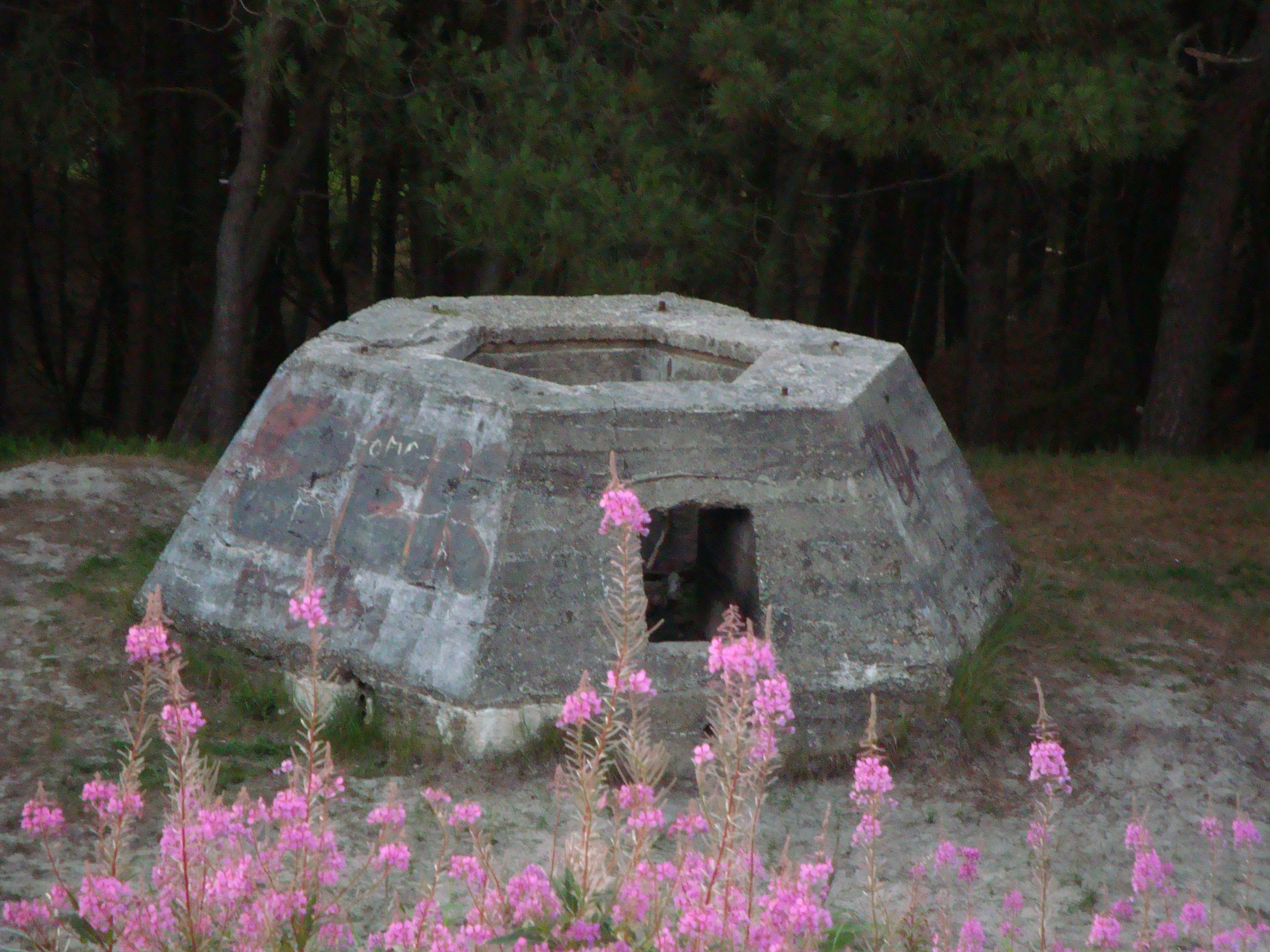 Bunker